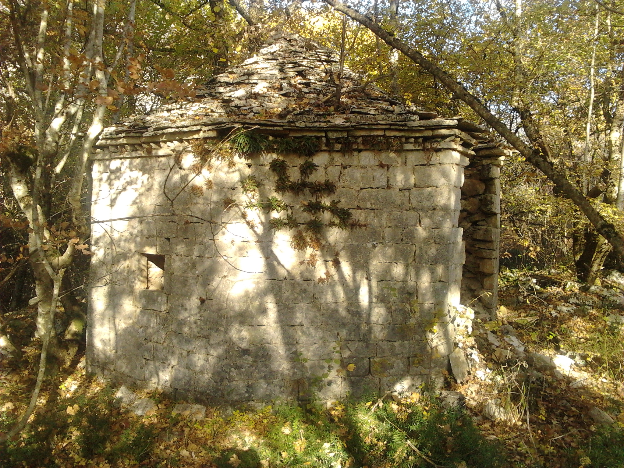 Bektashi Tekke of Voshtina (Pogoniani), with ruined wall (partially visible).